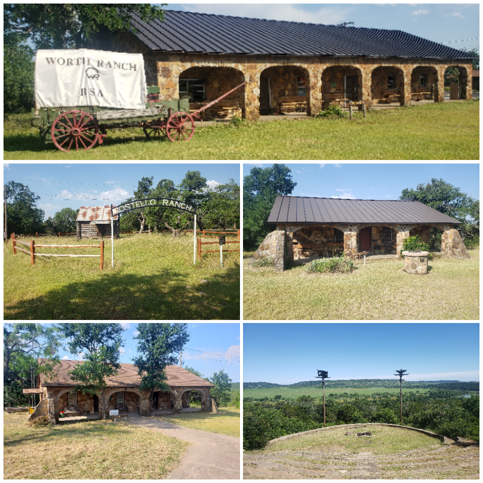 Collage of Wikimedia image files showing some of the most important Worth Ranch buildings